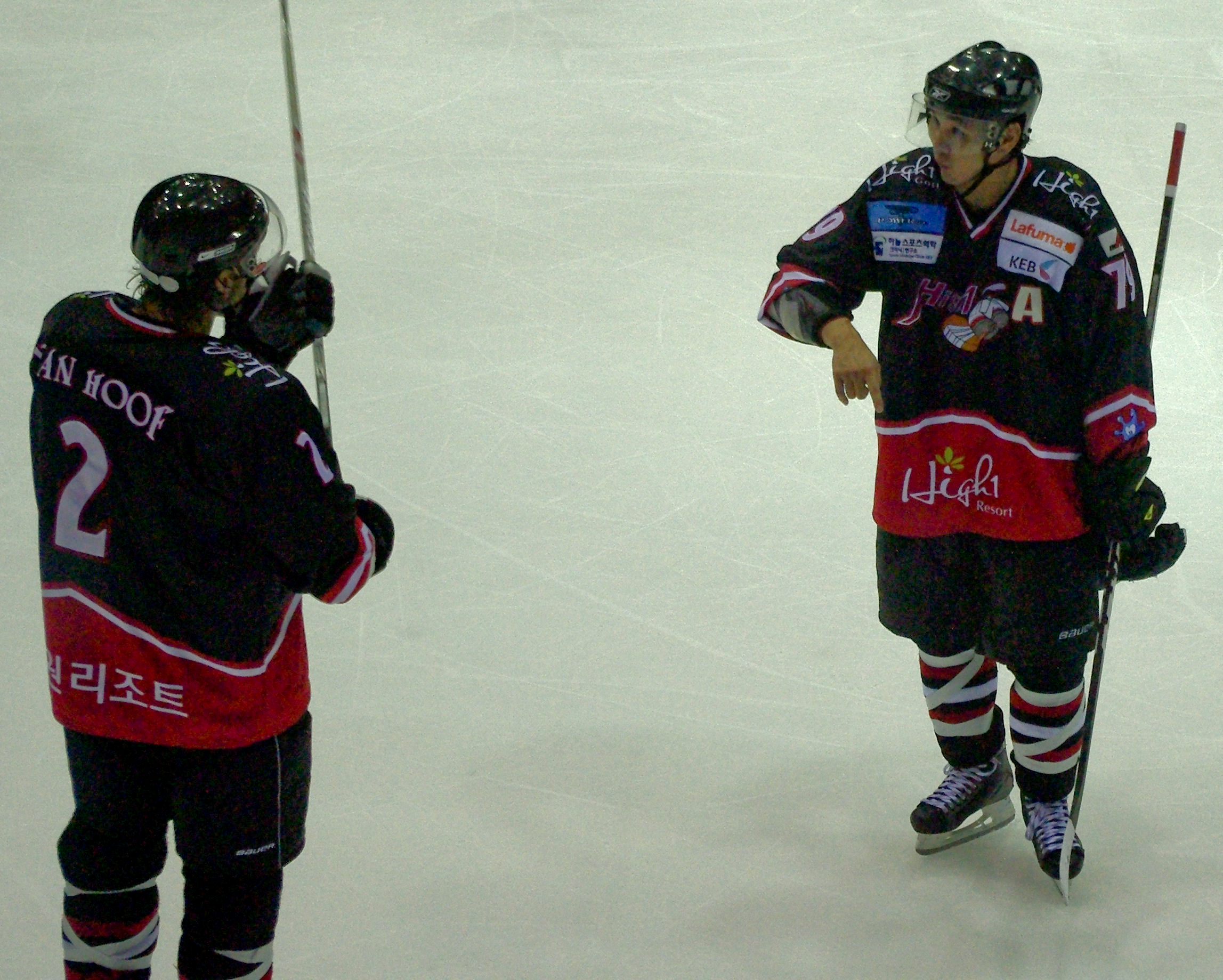 Alex Kim of High1 discussing strategy on ice